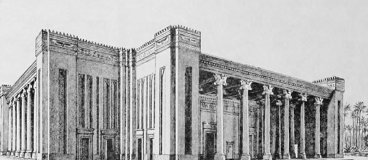 Title: History of Egypt, Chaldea, Syria, Babylonia and Assyria Year: 1903 (1900s) Authors: Maspero, G. (Gaston), 1846-1916 Sayce, A. H. (Archibald Henry), 1845-1933 Subjects: Civilization, Ancient History, Ancient Publisher: London : Grolier Society Text Appearing Before Image: THE KING ON HIS THKONE. 270 THE LAST DAYS OP THE OLD EASTERN WORLD respect as in other Oriental nations was paid only to thegods: this was but natural, for was he not a despot, whowith a word or gesture could abase the noblest of hissubjects, and determine the well-being or misery of hispeople ? His dress differed from that of his nobles only bythe purple dye of its material and the richness of the goldembroideries with which it was adorned, but he was Text Appearing After Image: A VIEW OF THE AP^UJANA OF SUSA, RESTOKED. distinguished from all others by the peouhar felt cap, orhidaris, which he wore, and the blue-and-white band whichencircled it like a crown; the king is never representedwithout his long sceptre with pommelled handle, whetherhe be sitting or standing, and wherever he went he wasattended by his umbrella- and fan-bearers. The prescrip-tions of court etiquette were such as to convince hissubjects and persuade himself that he was sprung from a ^ Drawn by Boudier, from the restoration by Marcel Dieulafoy. THE ETIQUETTE OP THE PERSIAN COURT 271 nobler race than that of any of his magnates, and that hewas outside the pale of ordinary humanity. The greaterpart of his time was passed in privacy, where he wasattended only by the eunuchs appointed to receive hisorders; and these orders, once issued, were irrevocable,as was also the kings word, however much he might desireto recall a promise once made. His meals were, as arule, served to him alone; he mig